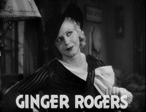 Frame from public domain trailer for 1933 Warner Bros. film Gold Diggers of 1933 showing Ginger Rogers and her name in type